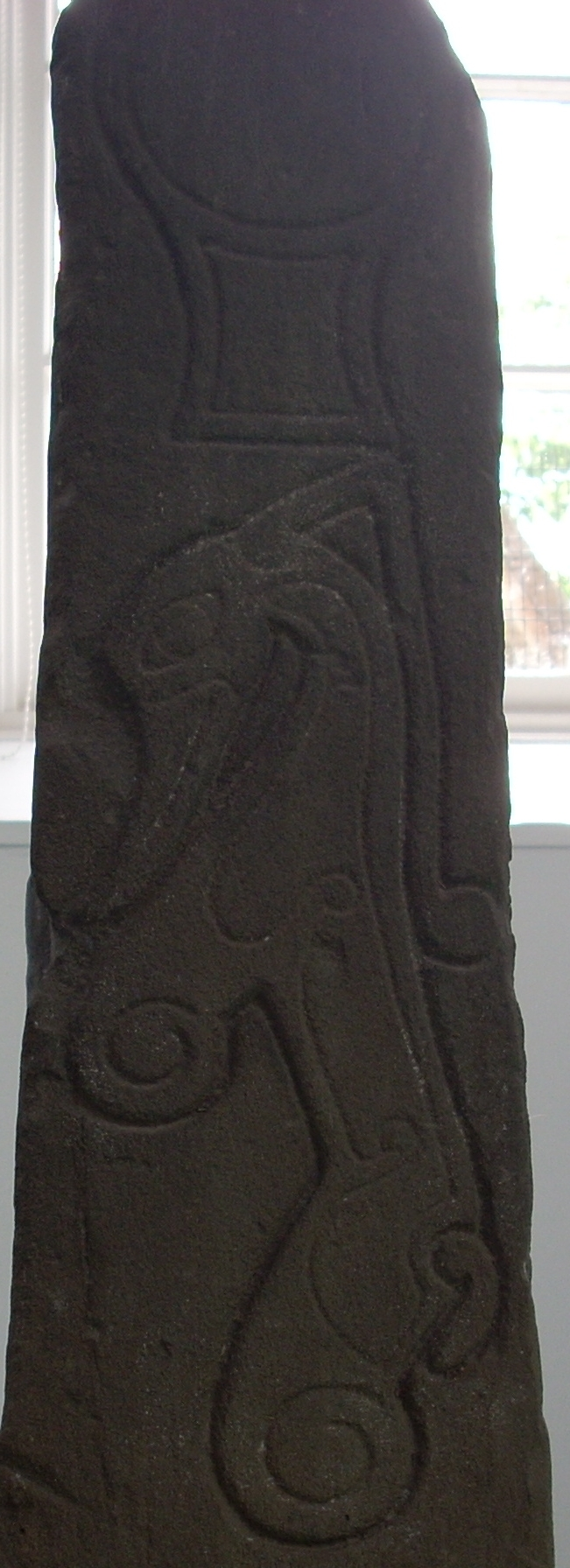 Side of Meigle 5 Pictish stone in the Meigle Sculptured Stone Museum in Scotland.